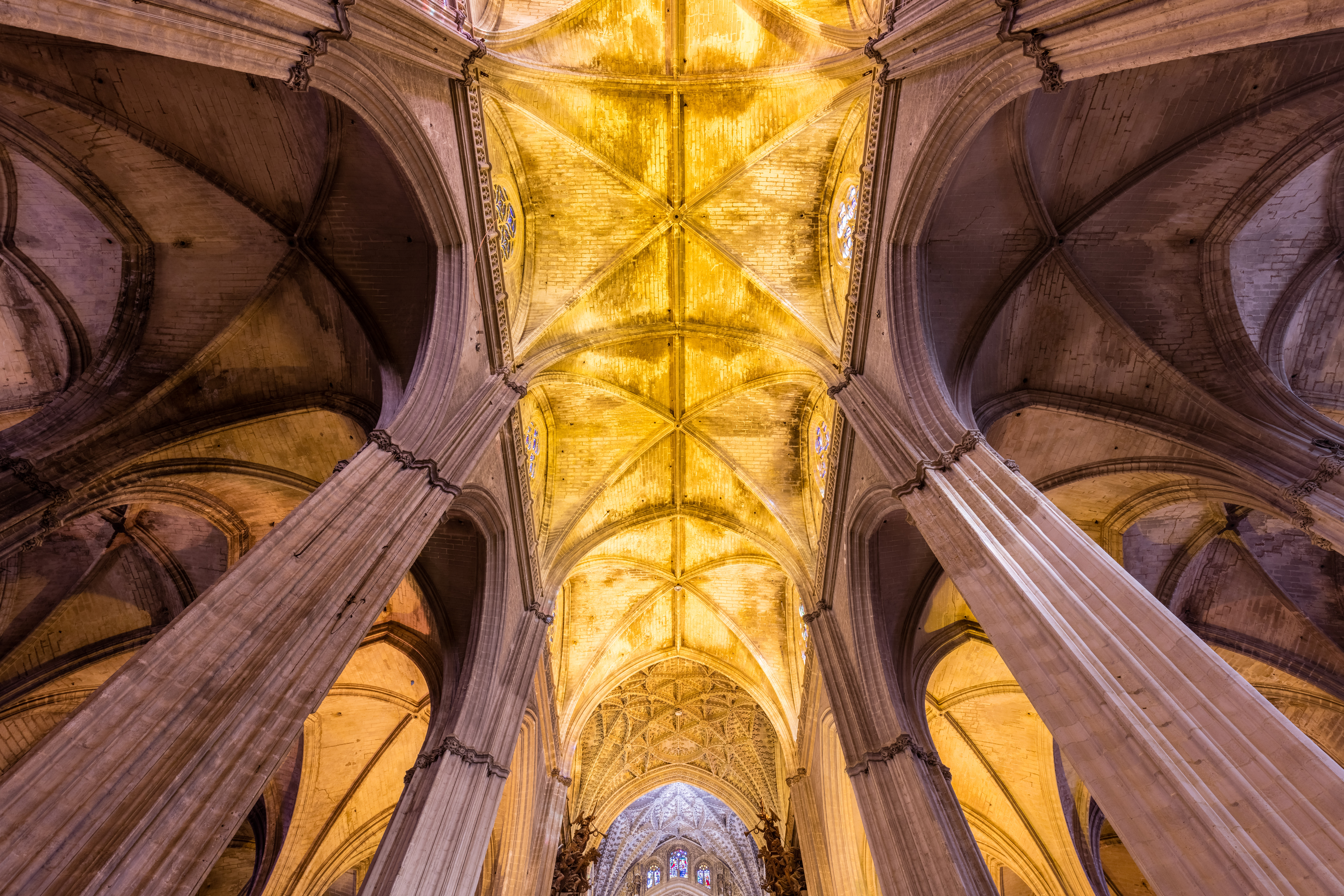 Cathedral of Seville, Seville, Spain